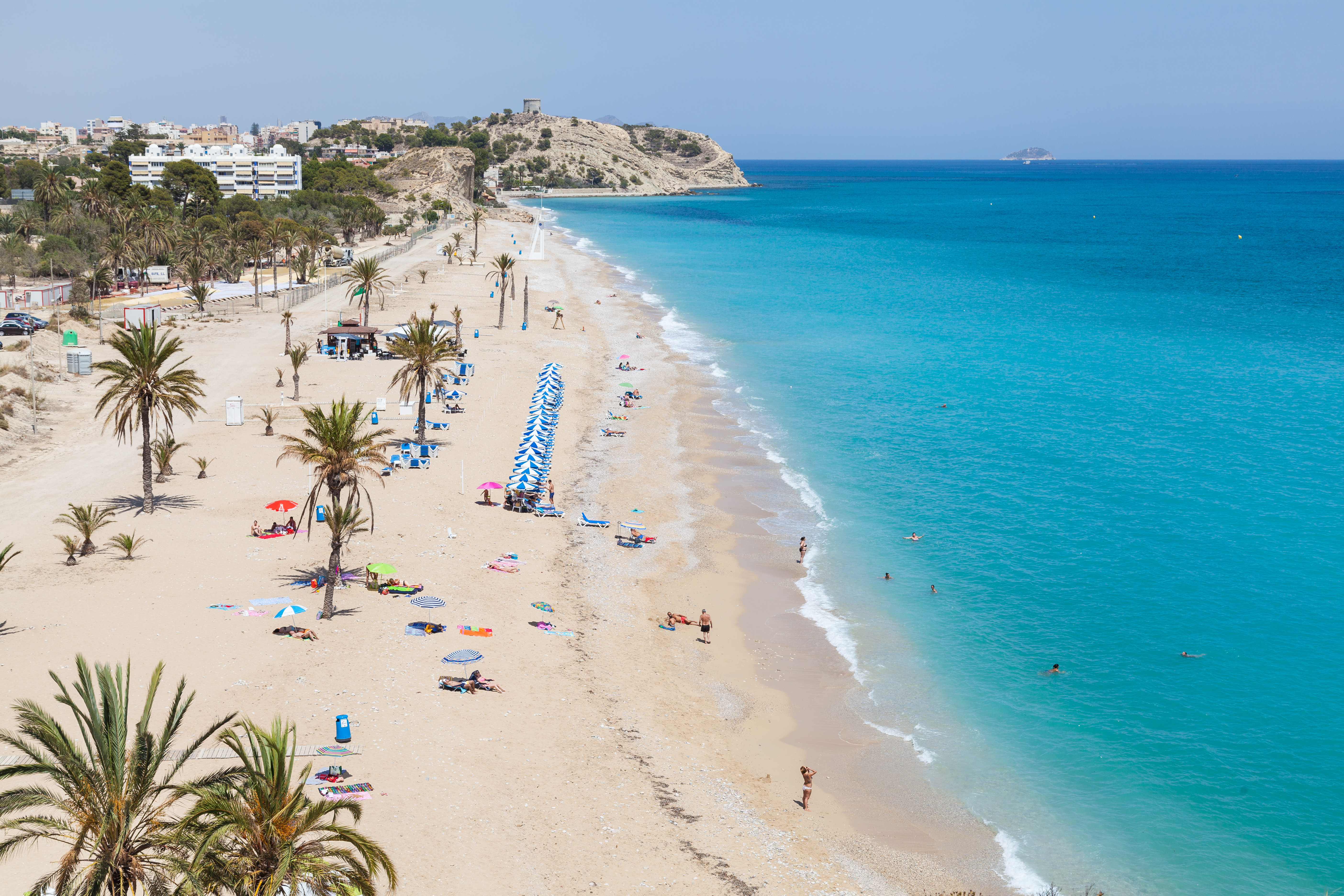 Paradise Beach, Villajoyosa, Spain